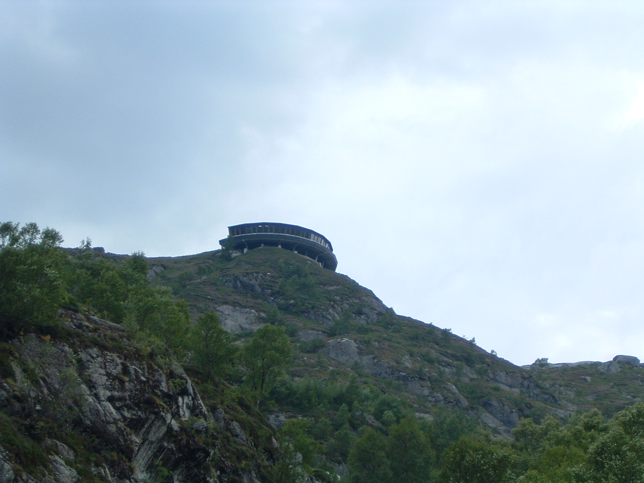 Øygardstølen/The Eagles Nest seen from the road up from Lysebotn.